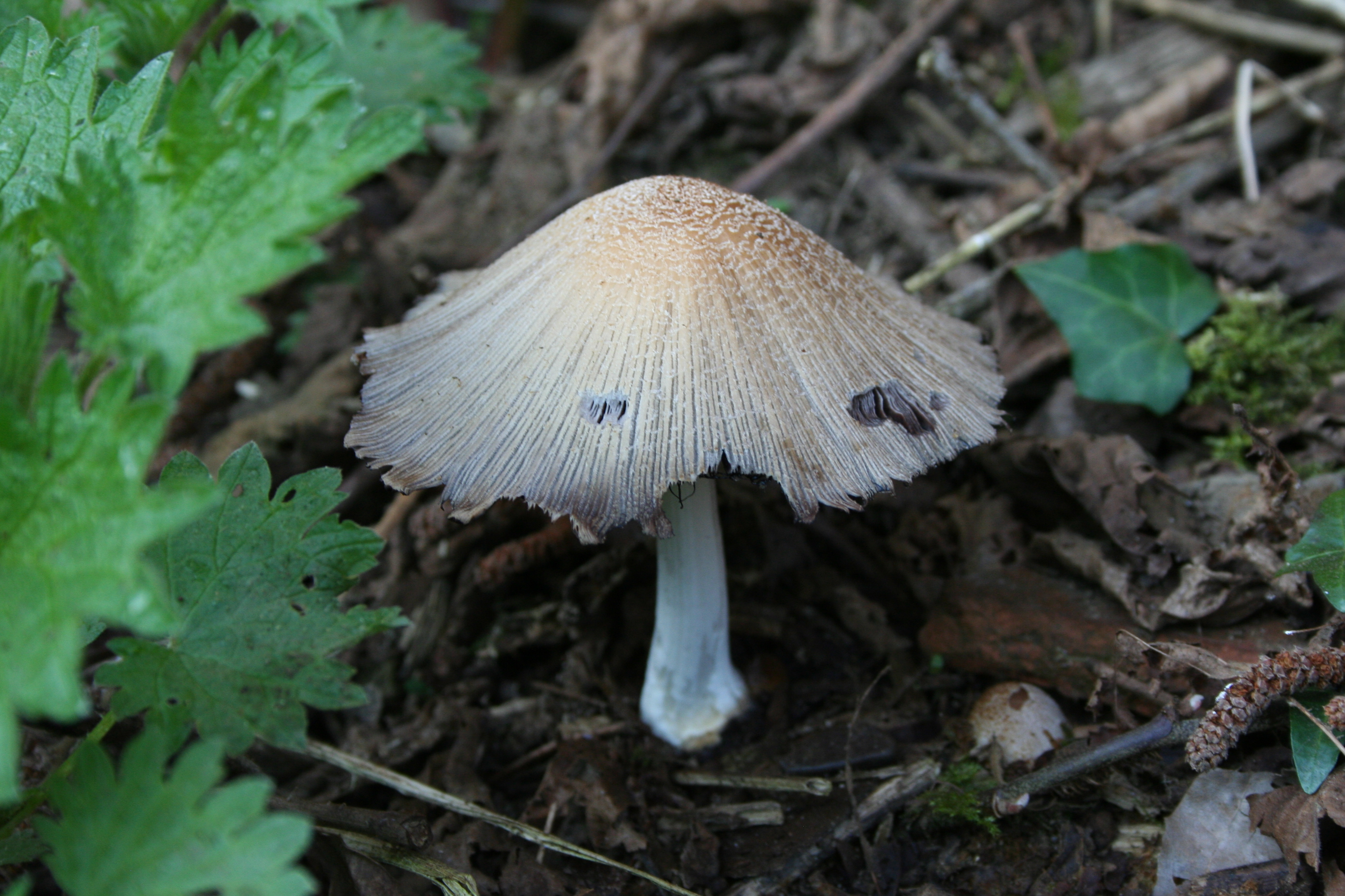 Mature Coprinellus Domesticus